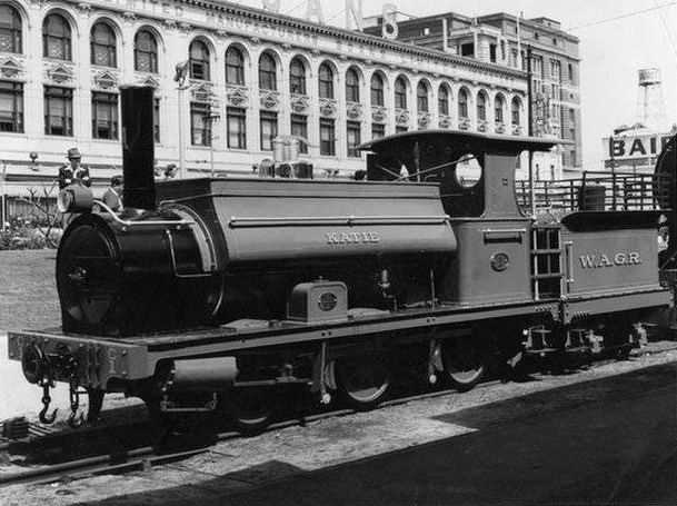 A three quarter view of WAGR C class steam locomotive no. 1, on display at the Perth railway station, together with WAGR V class locomotive no. 1224 (just visible at right), then the latest, and the last, steam locomotive to be built for the WAGR.The information in the caption above and in the date description below is obtained from Gray, Bill (2010). Guide to the collection The Railway Museum Western Australia. Bassendean: Australian Railway Historical Society (Western Australian Division), p. 8. ISBN 9780980392234. In the background of the picture is the Boans department store (since demolished), and behind that, at right, is part of the General Post Office.